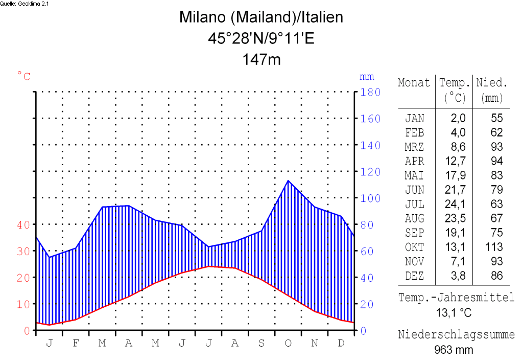 climate chart in the format by Walter and Lieth, metric, °Celsisus and millimeters, made with Geoklima 2.1